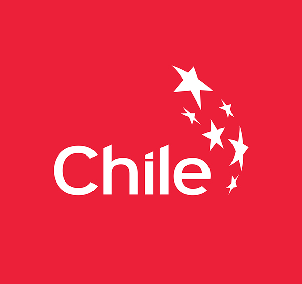 Chile's official logo